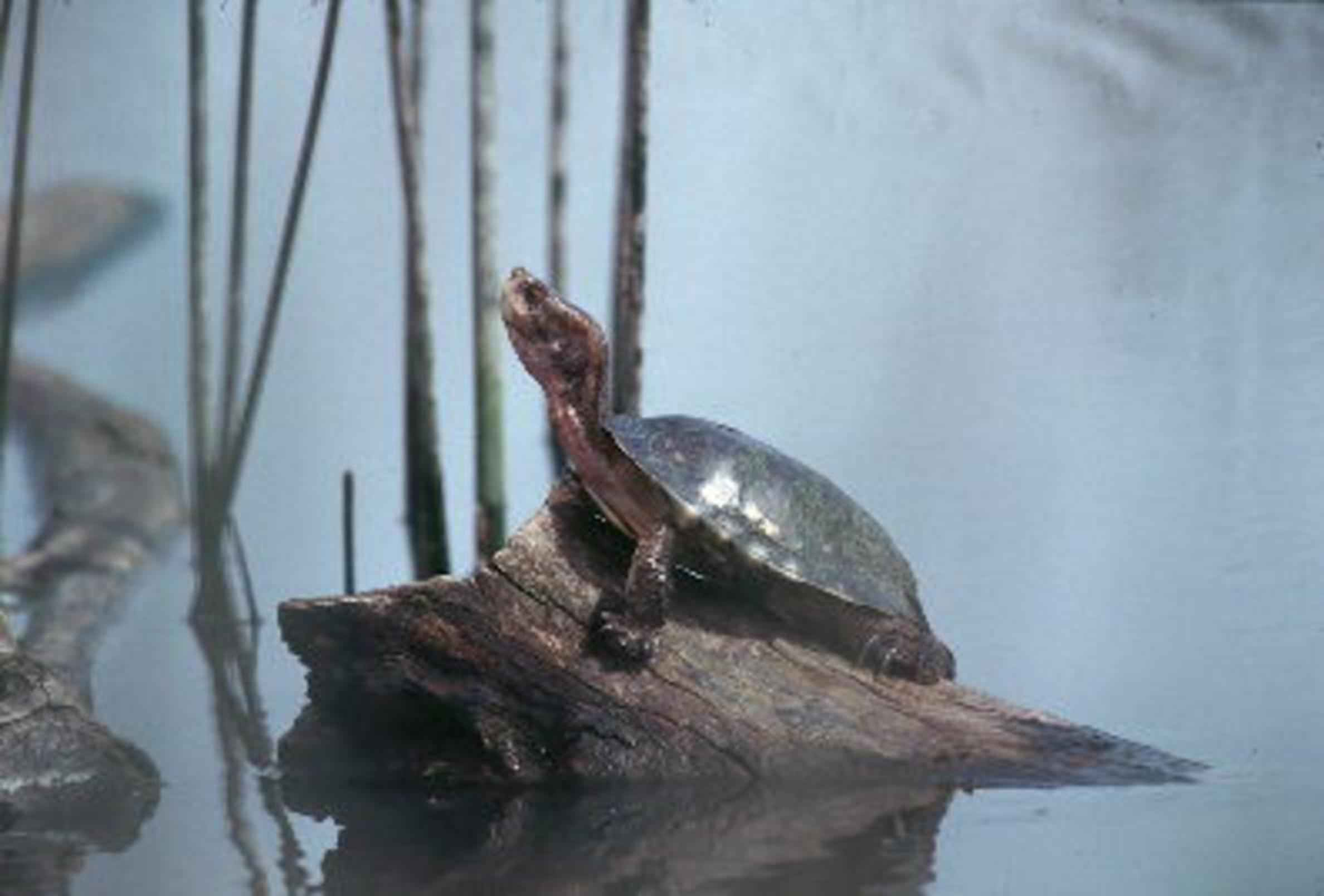 Image title: Western pond turtle clemmys marmorate Image from Public domain images website